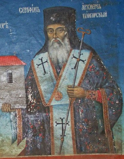 Assumption of Mary Church in Pchelina Ktetors Serafim